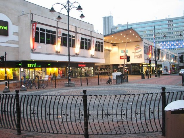 This is another area that was redeveloped after I left school in the late 60's. It has gone through a few changes since then. The shop on the corner Zavvi used to be Virgin Megastores and only today went into liquidation.